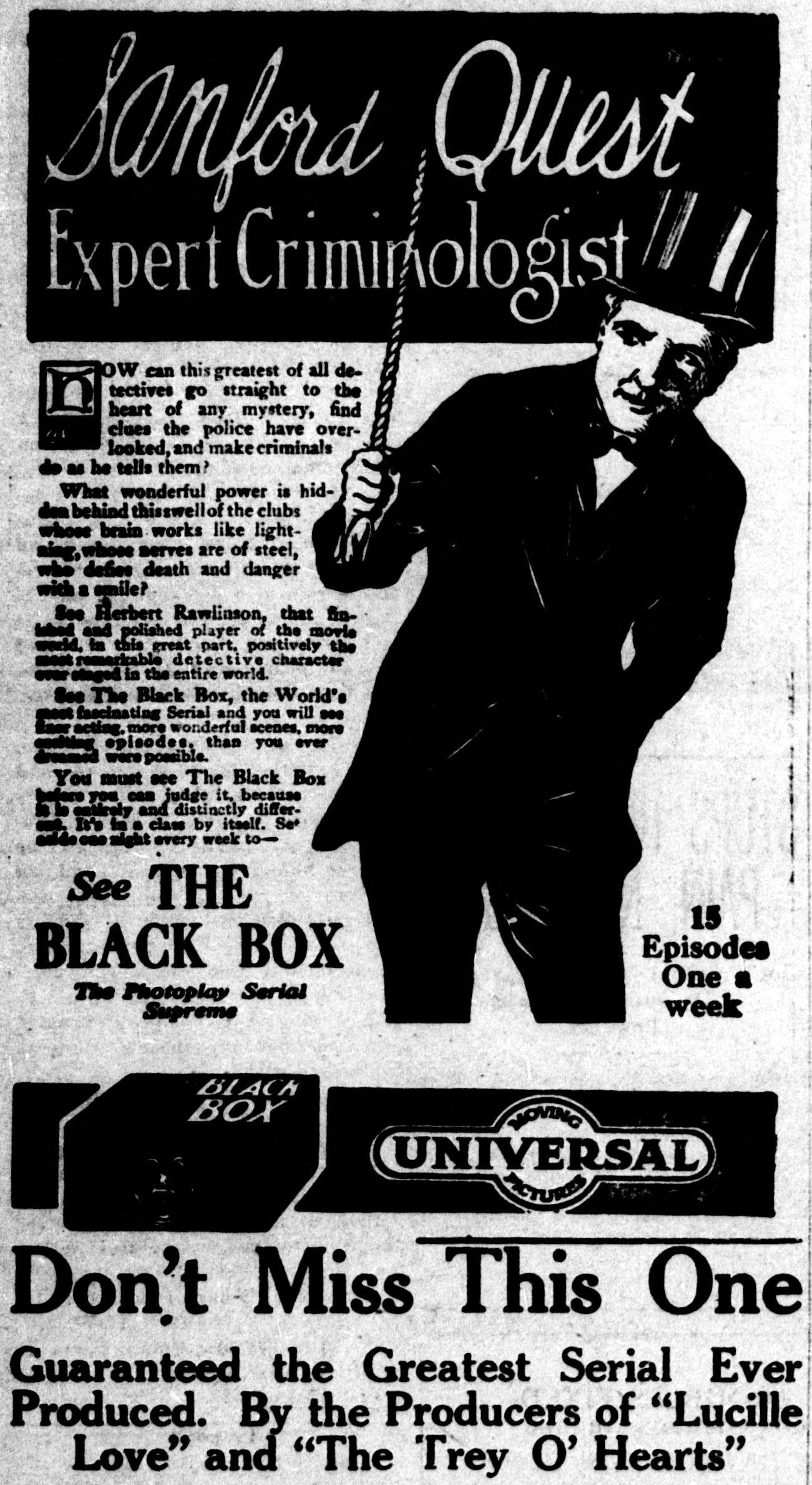 The Black Box is a 1915 drama film serial directed by Otis Turner. This is from a newspaper advertisement in The Evening Herald.